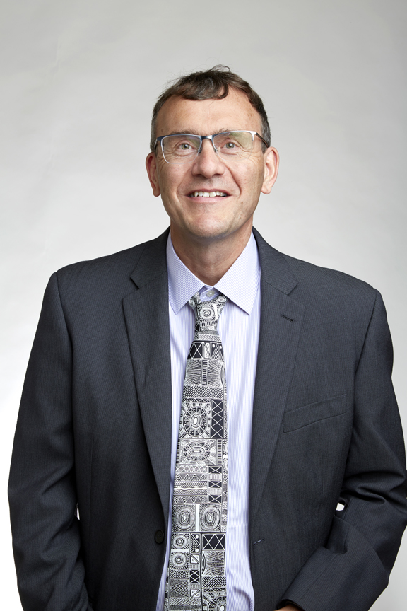 Peter Martin Visscher is a Dutch-born Australian geneticist who is Professor and Chair of Quantitative Genetics at the University of Queensland Attribution: The Royal Society